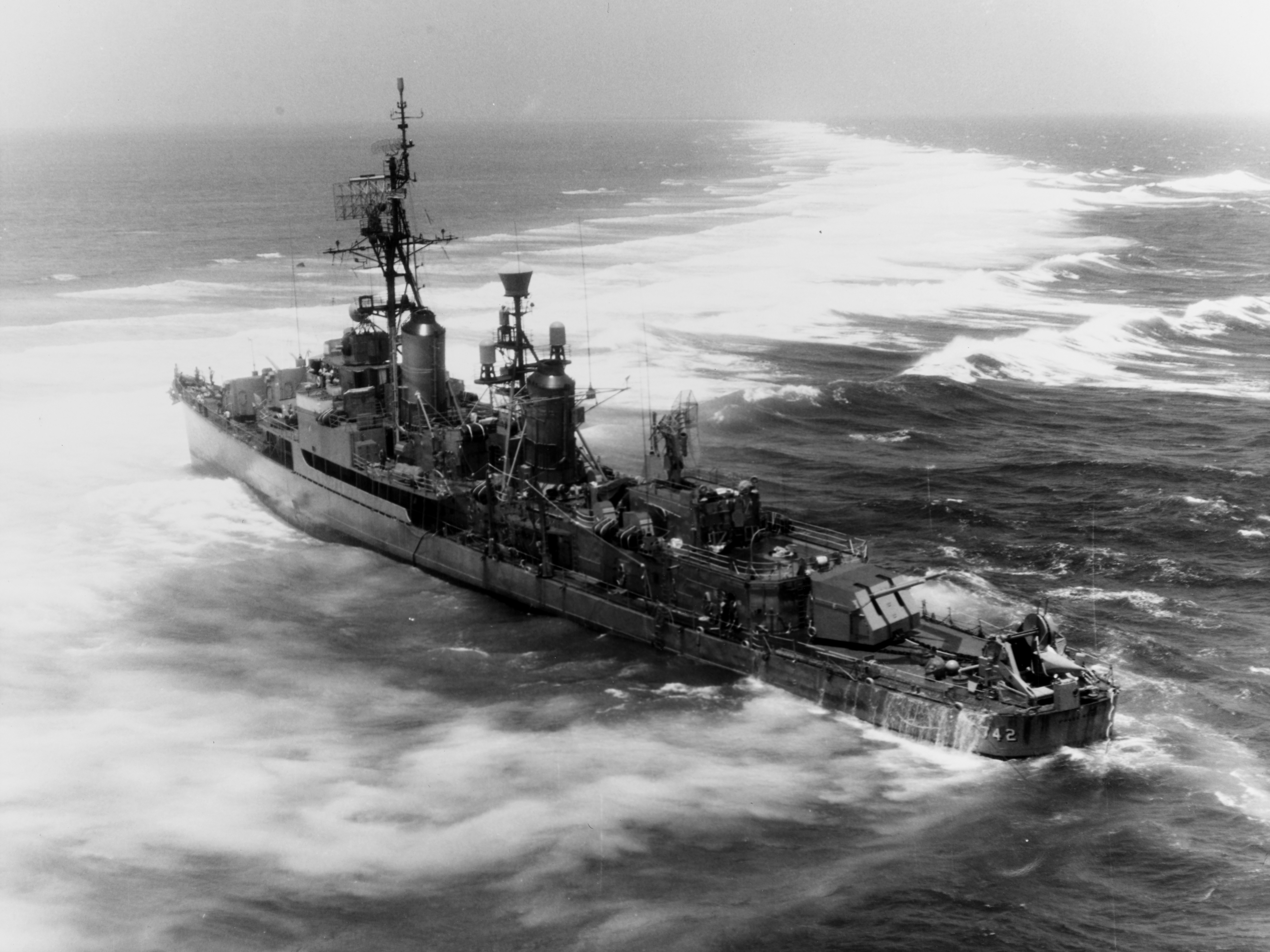 The U.S. Navy radar picket destroyer USS Frank Knox (DDR-742) aground on Pratas Reef, in the South China Sea, July 1965.